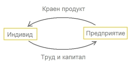 Remake of diagram